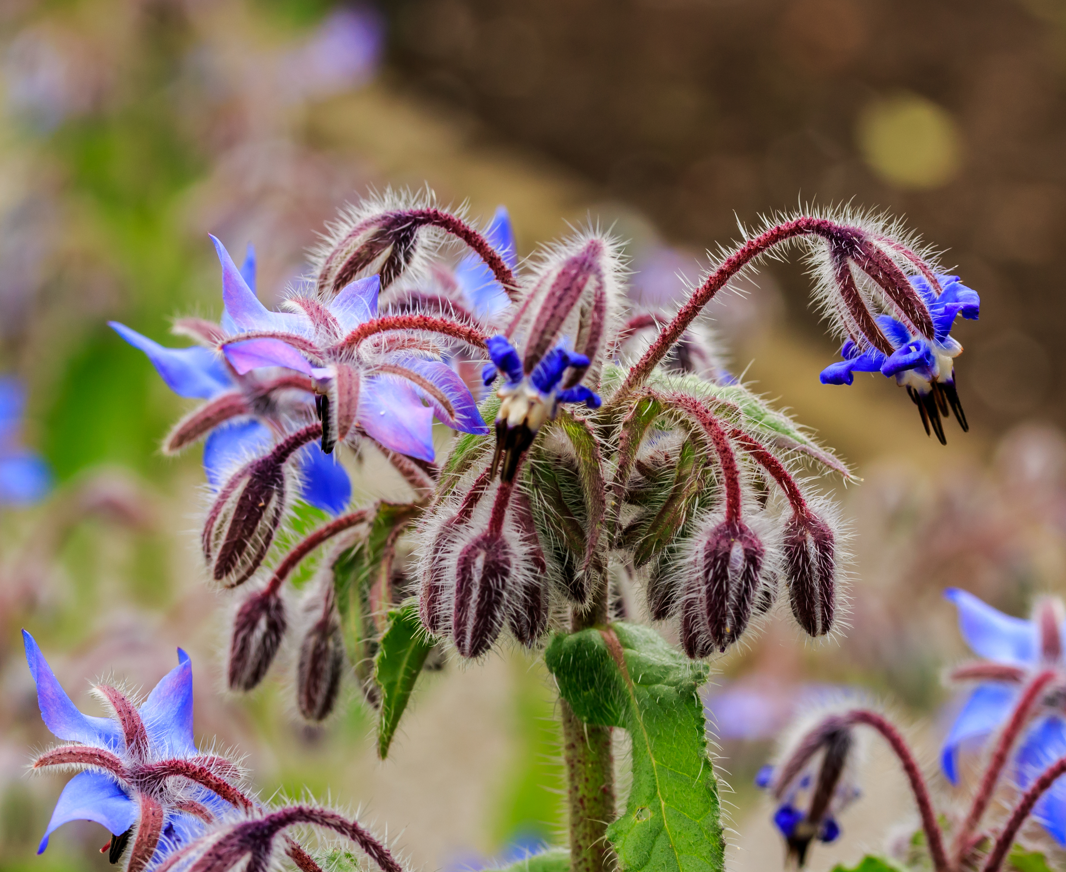 Borago officinalis. Location, The Kruidhof in the Netherlands.